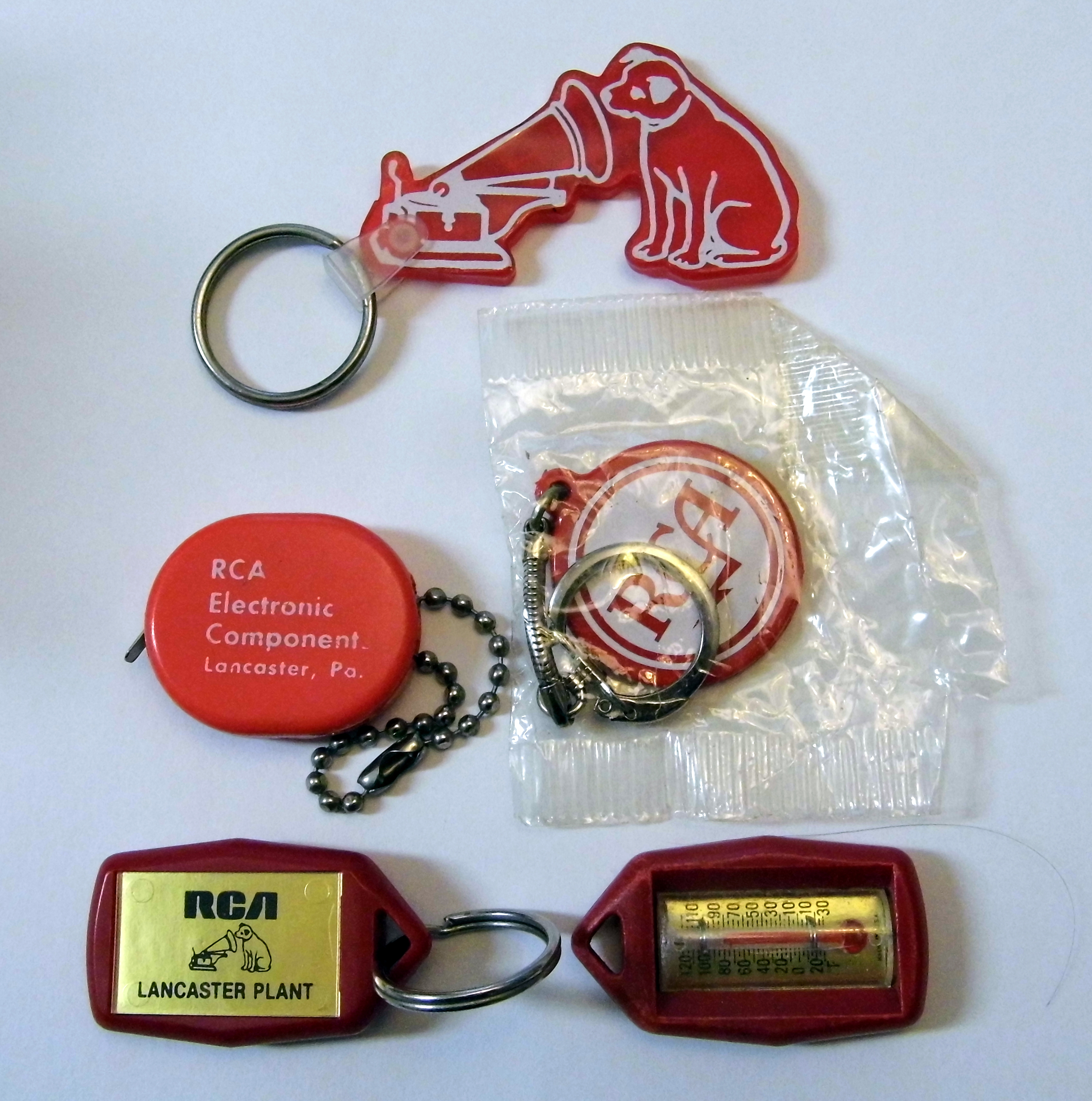 Vintage RCA Promotional Items, RCA Plant, Lancaster, Pennsylvania